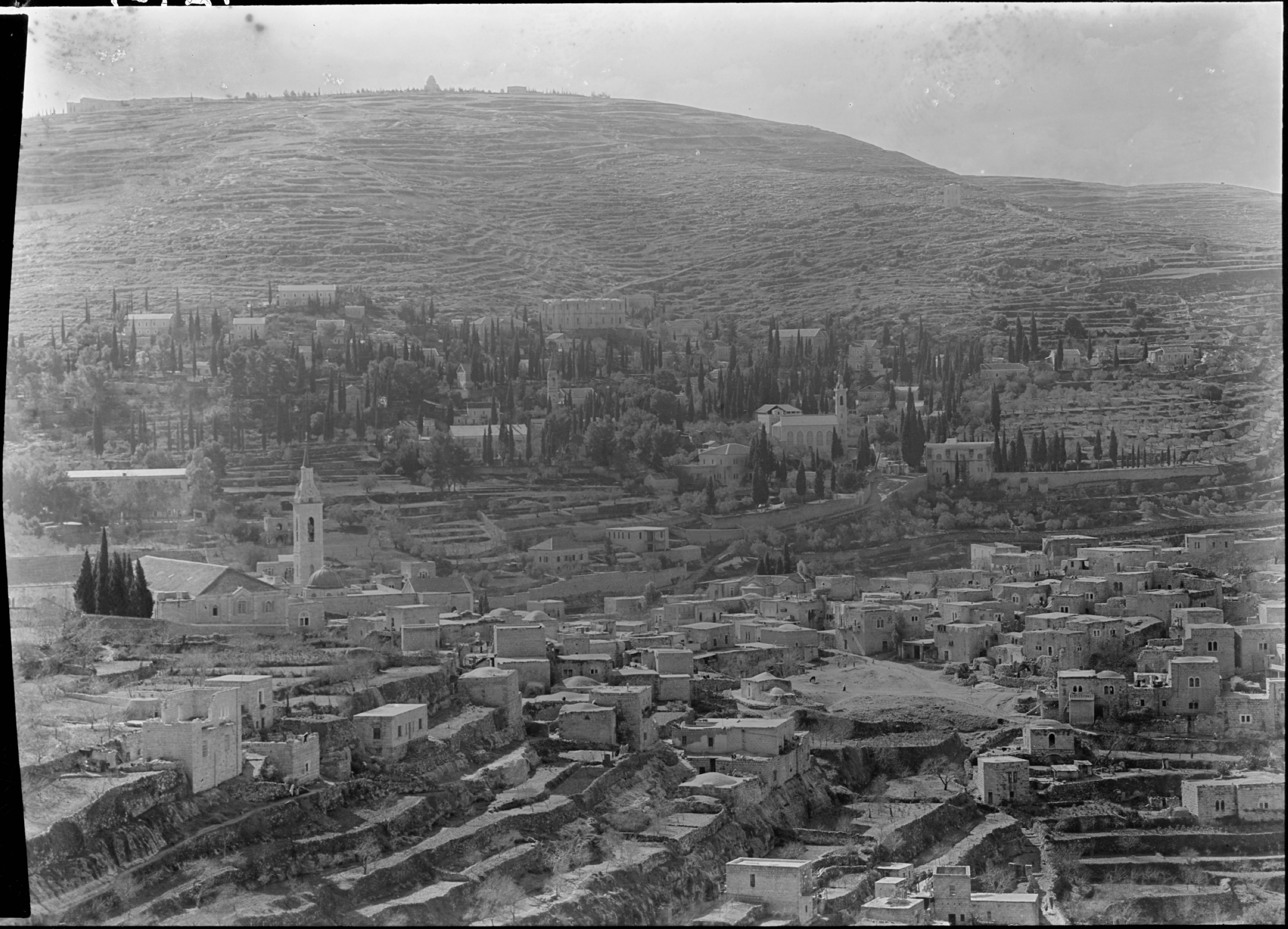 Title: Ain Karim. Gen. [i.e., General] view fr[om] north Abstract/medium: G. Eric and Edith Matson Photograph Collection Physical description: 1 negative